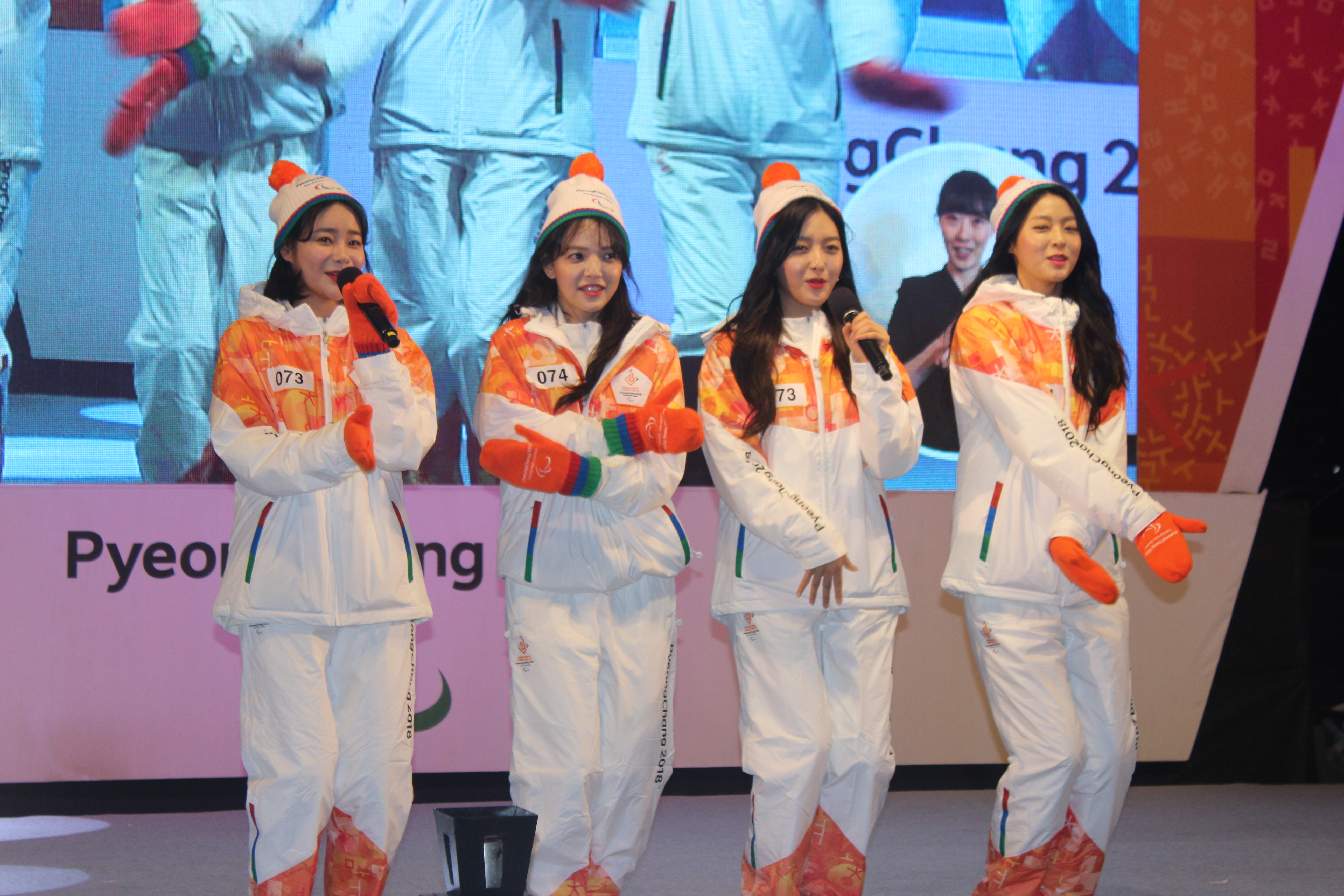 2018 Paralympics Torch Relay in Seoul, AOA